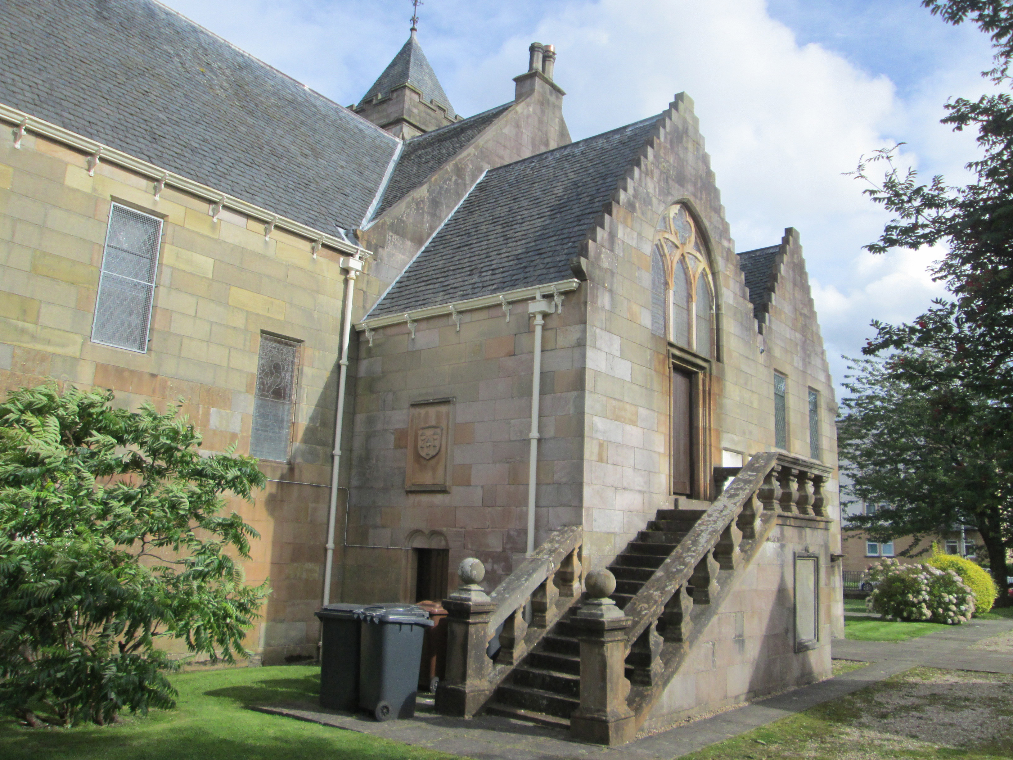 The Old West Kirk in Greenock, looking from the west to the original east gable, with steps giving access to the Schaw Aisle and the adjacent Vestry.